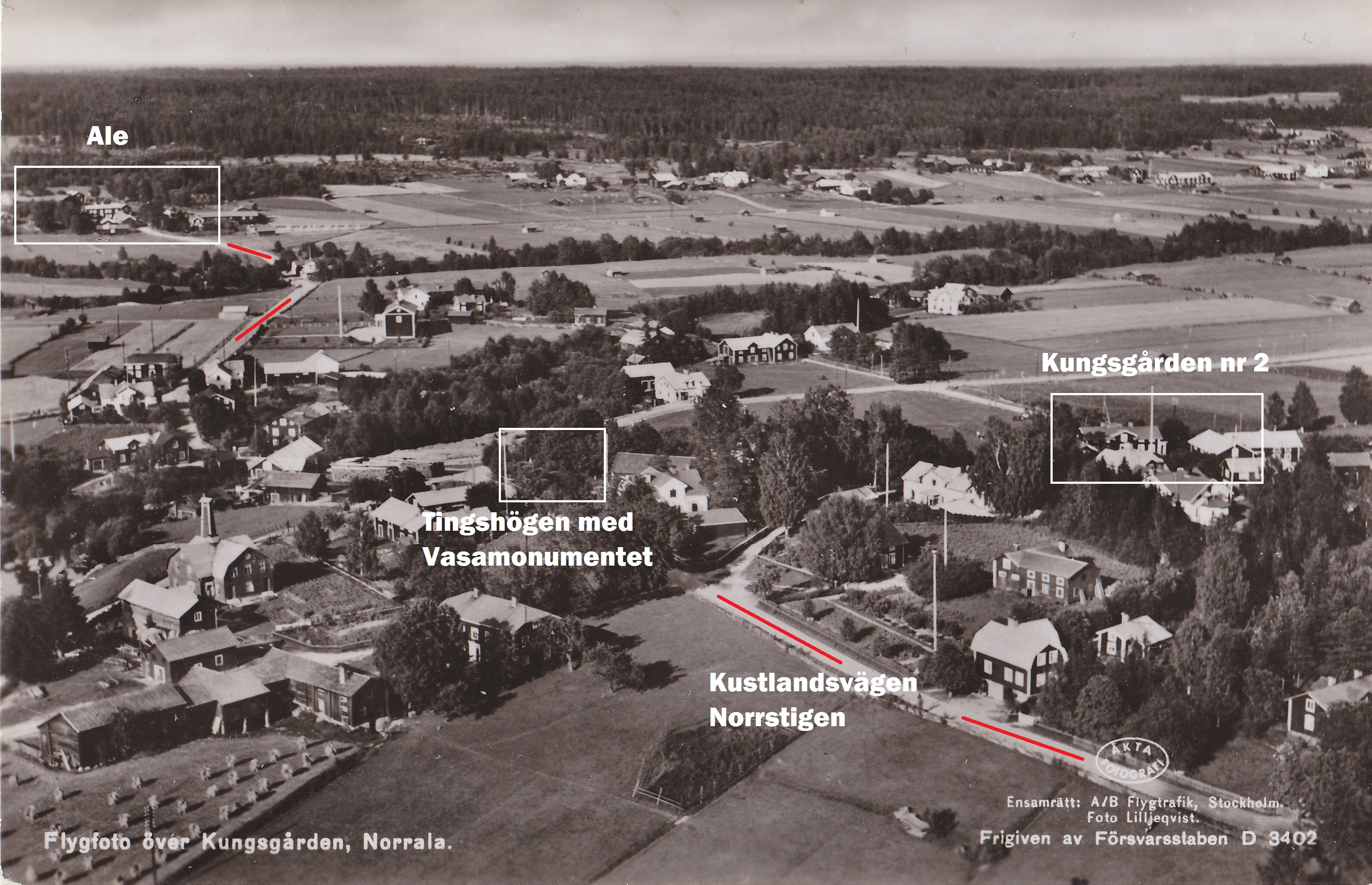 A Swedish aireal photograph from 1936 of Kungsgården (to the left bottom), the prehistoric coastline road crossing the west part of the Norrala valley.